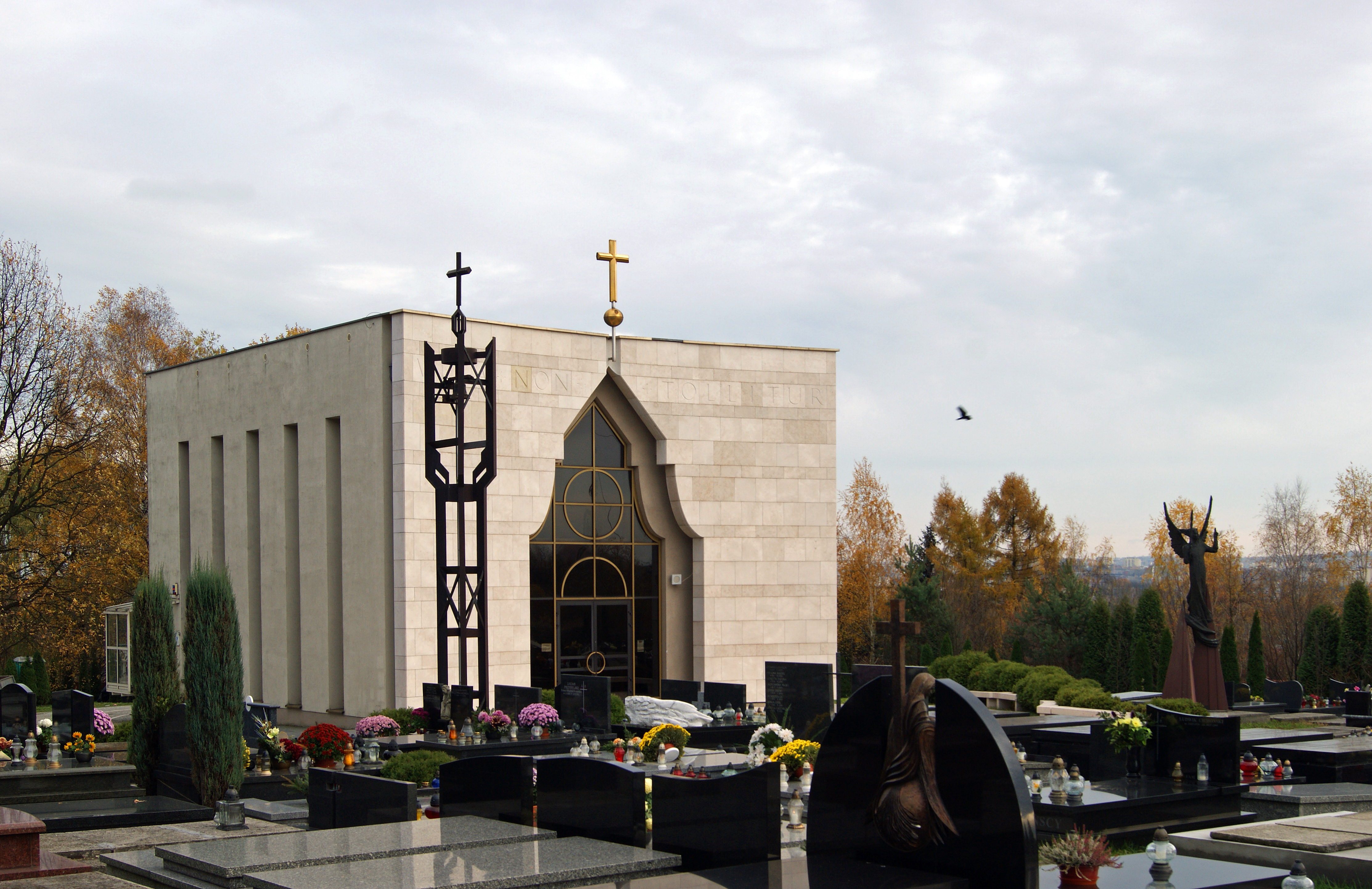 Chapel of All Saints (1999, by arch. Witold Cęckiewicz), Salwator Cemetery, Waszyngtona Av, Krakow, Poland